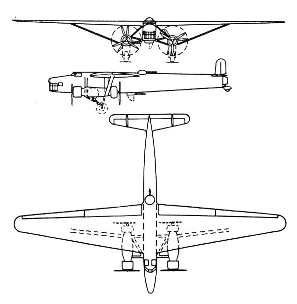 Farman F.223 3-view drawing from L'Aerophile April 1938